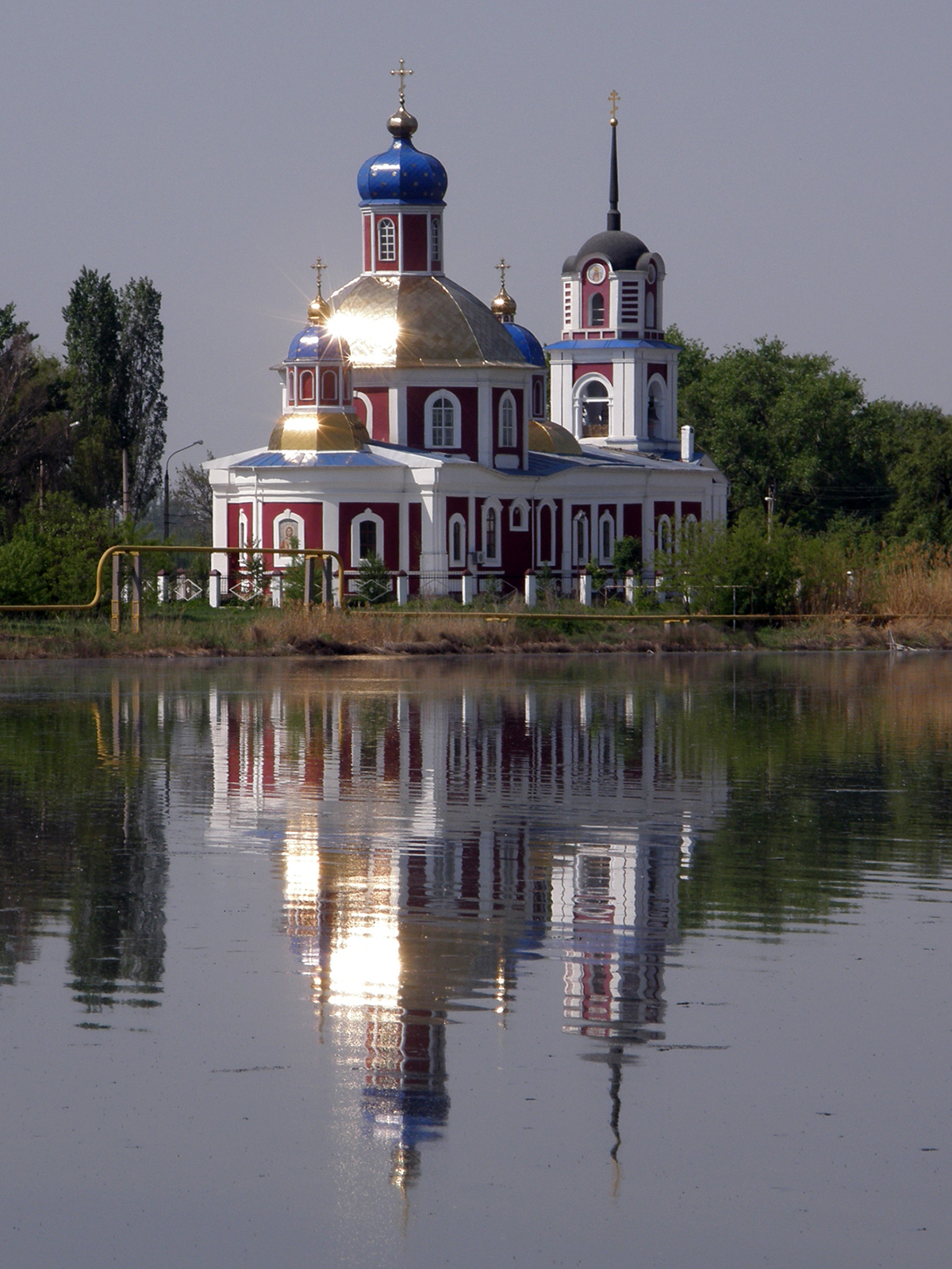 Church of the Resurrection in Sloviansk, Donetsk Oblast, Ukraine